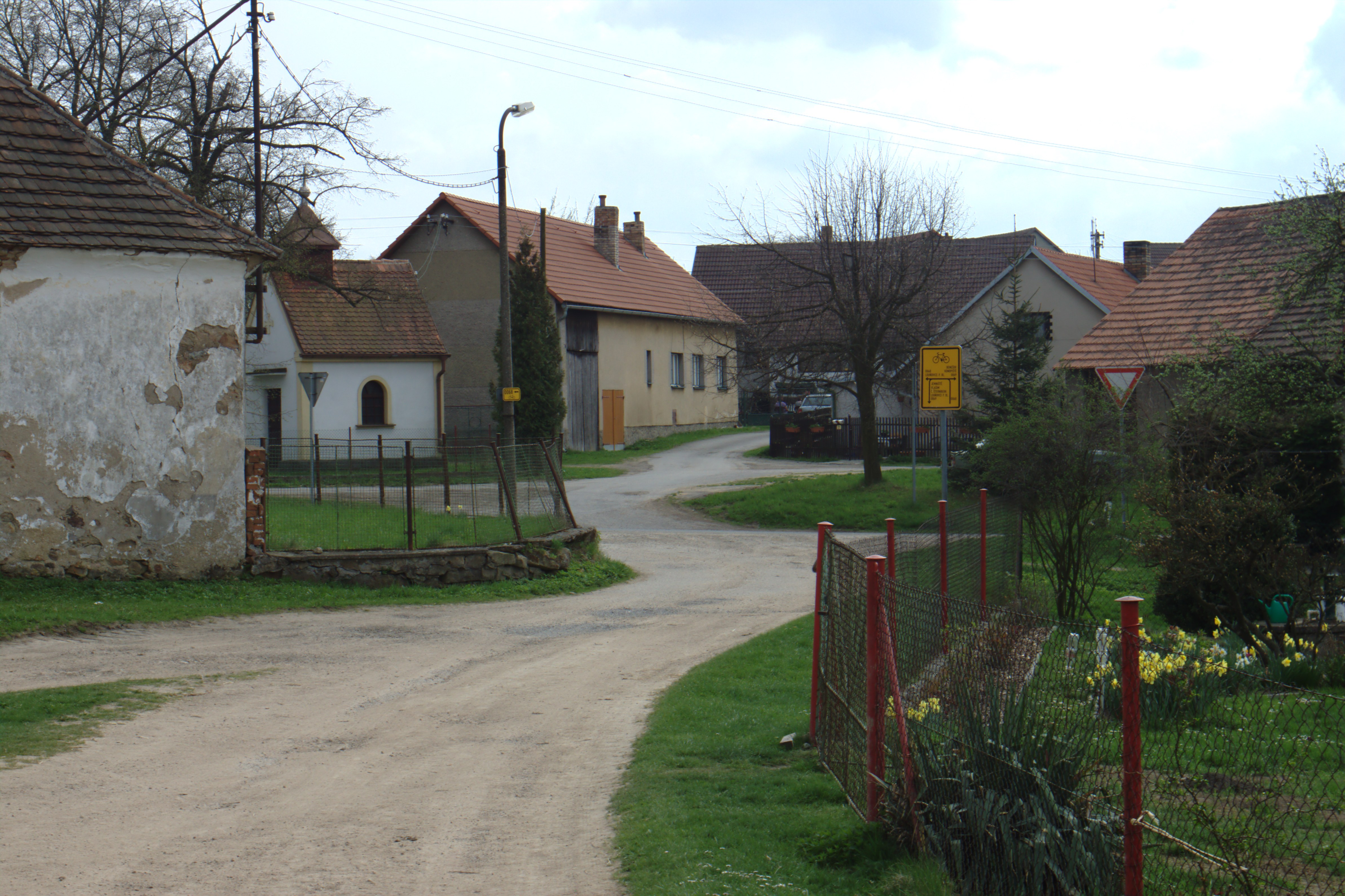 Pozov village in Benešov District, Central Bohemian Region, CZ